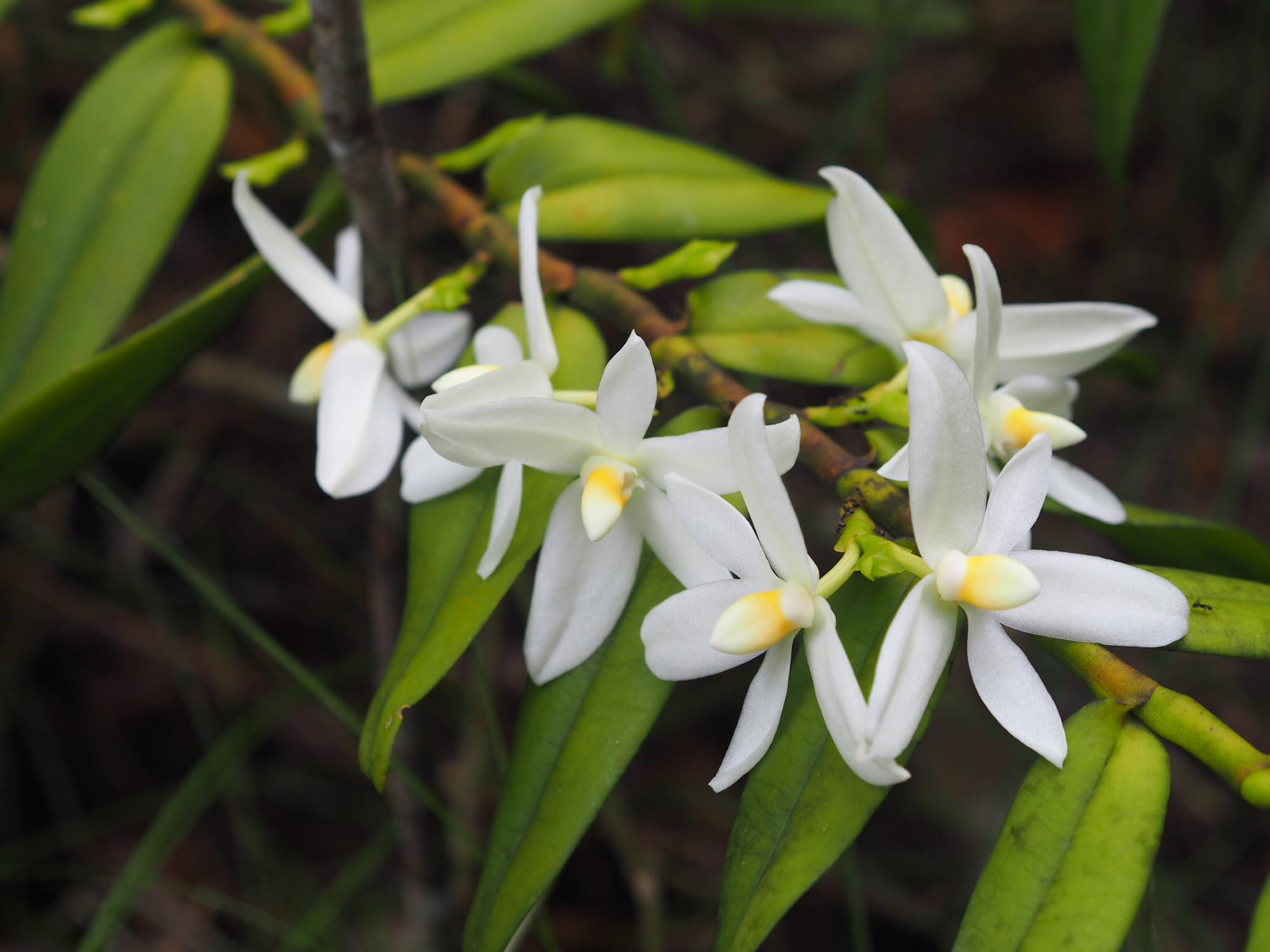 Thrixspermum calceolus from Pha Ngan Island, Thailand